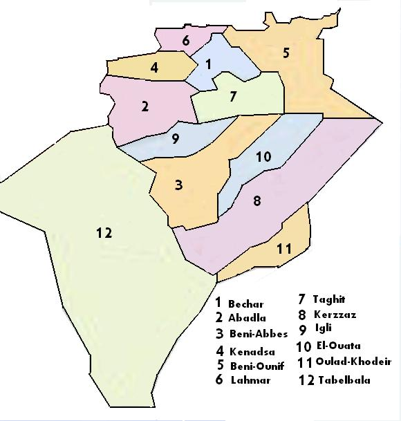 administrative division of Béchar Province (12 districts)